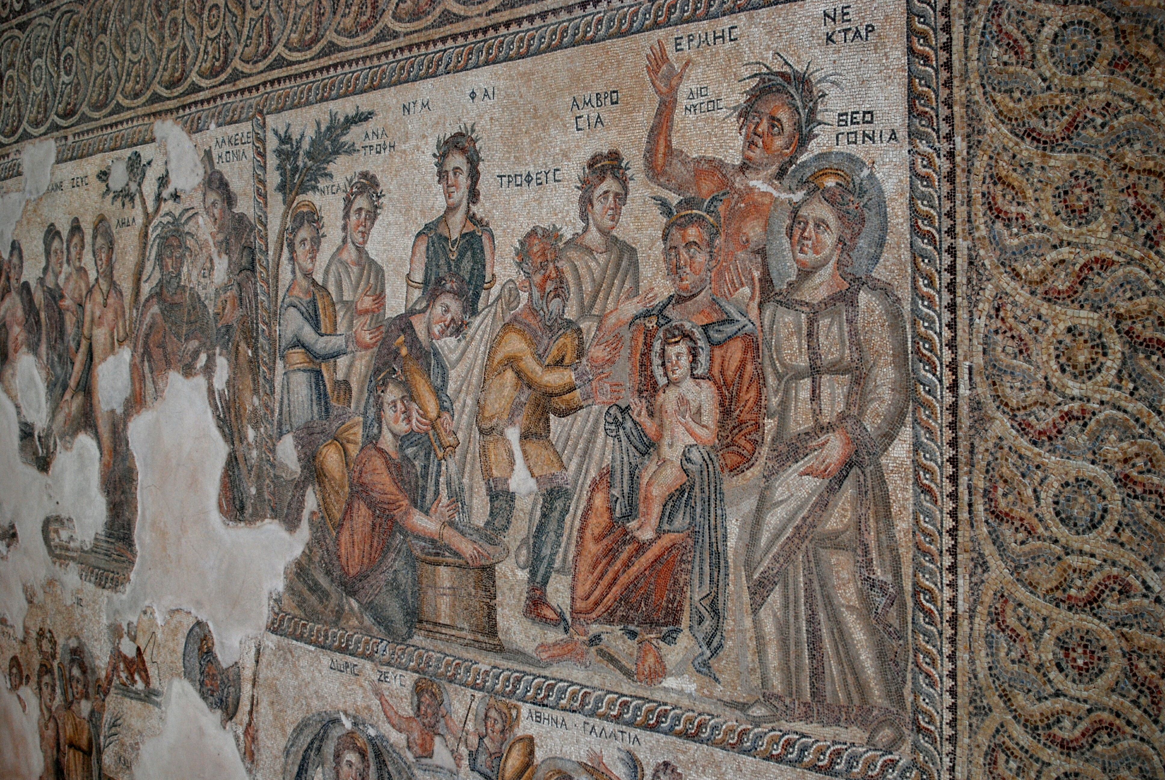 The House of Aion The mosaics of the House of Aion date back to the fourth century A.D and lie close to the mosaics of Dionysus and Theseus. Five mythological scenes worth seeing are: "The bath of Dionysus", "Leda and the Swan", "Beauty contest between Cassiopeia and the Nereids", "Apollo and Marsyas", and the "Triumphant procession of Dionysus".